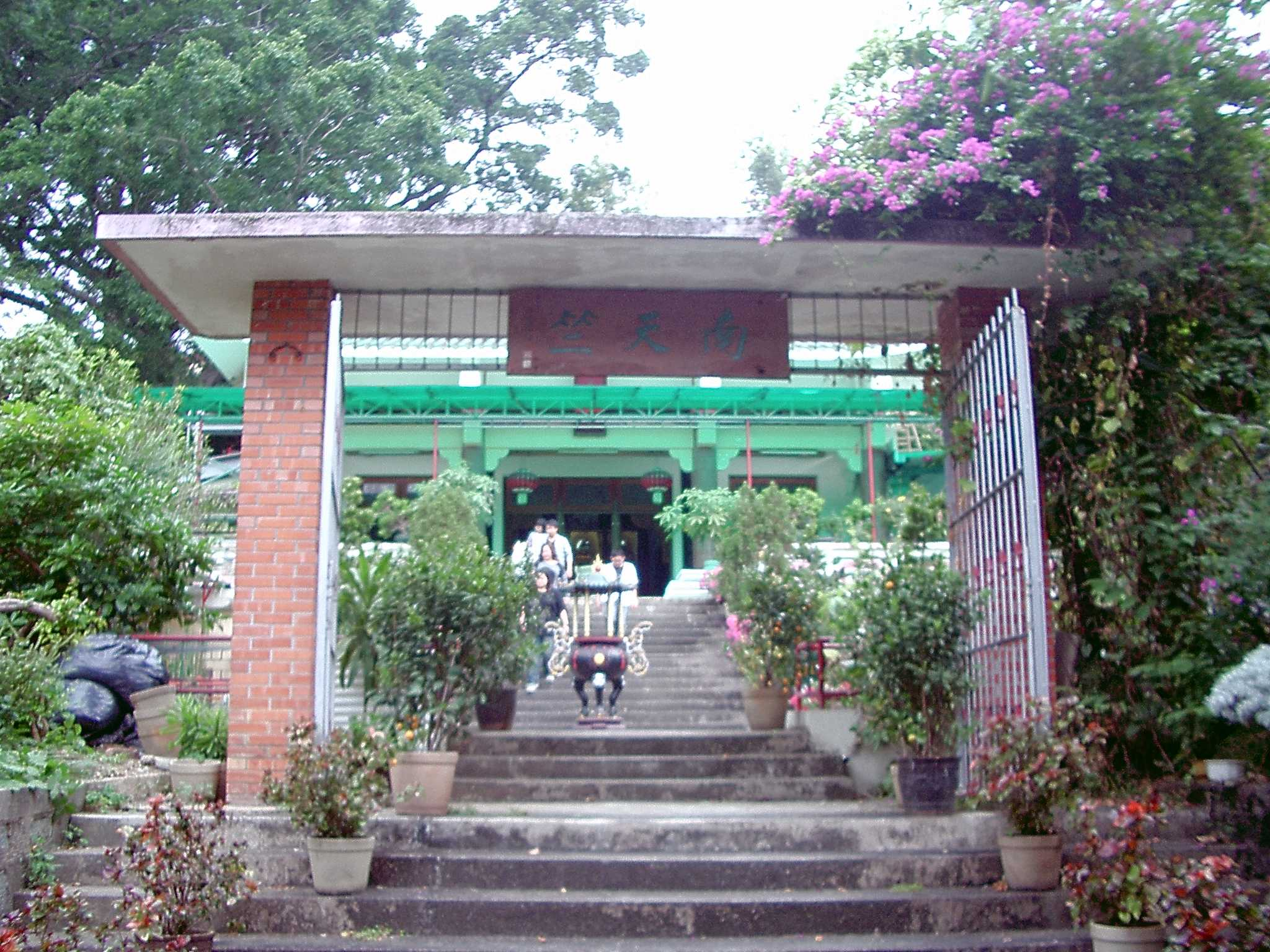 Main Enterance, Nam Tin Chuk Temple, Fu Yung Shan, Tsuen Wan, Hong Kong